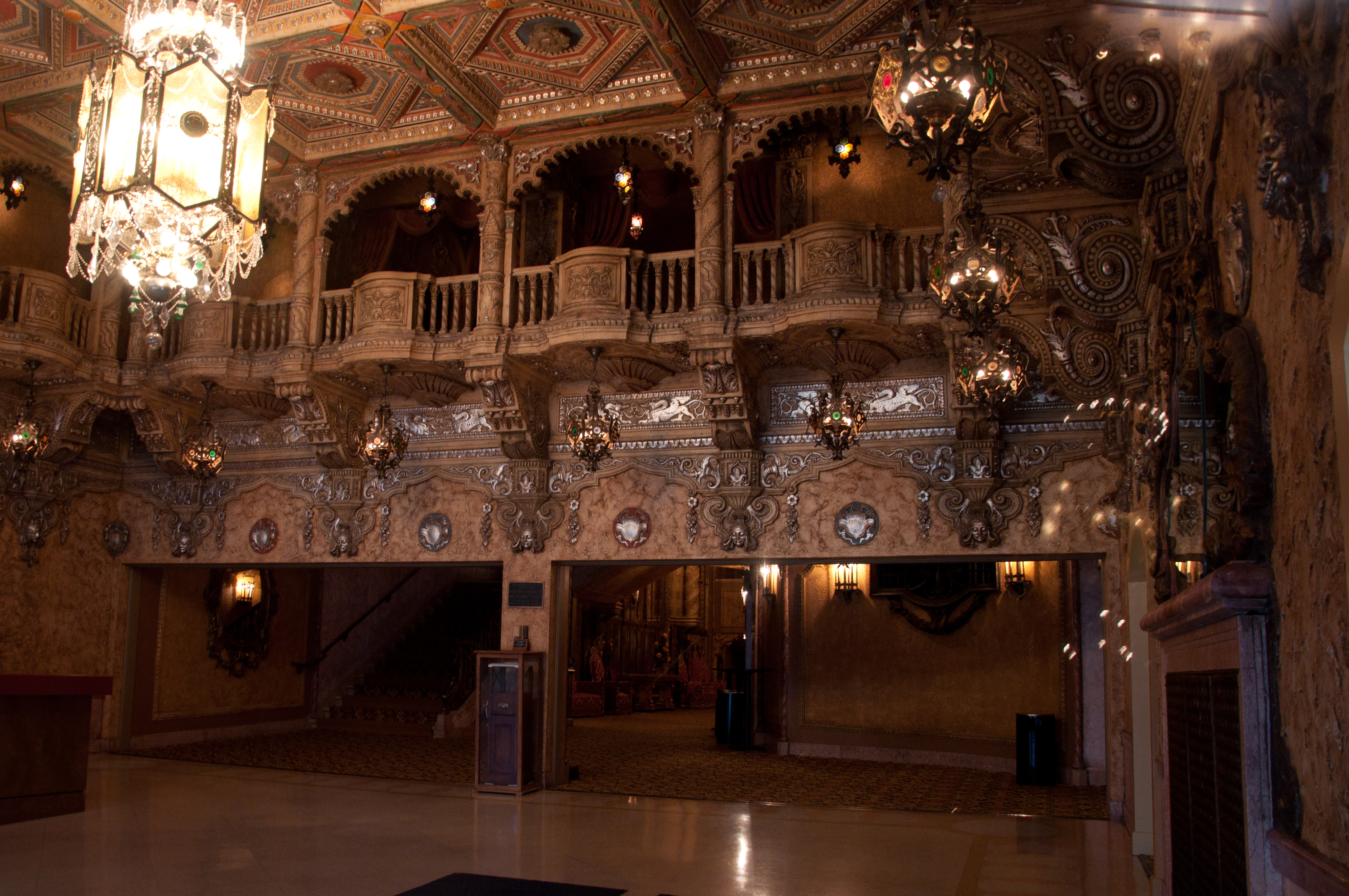 Photograph of the lobby of the Coronado Theater in downtown Rockford, Illinois.